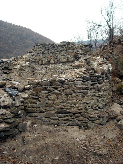 Remains of "St. Elias" fortified church in Urvich medieval fortress, near Sofia